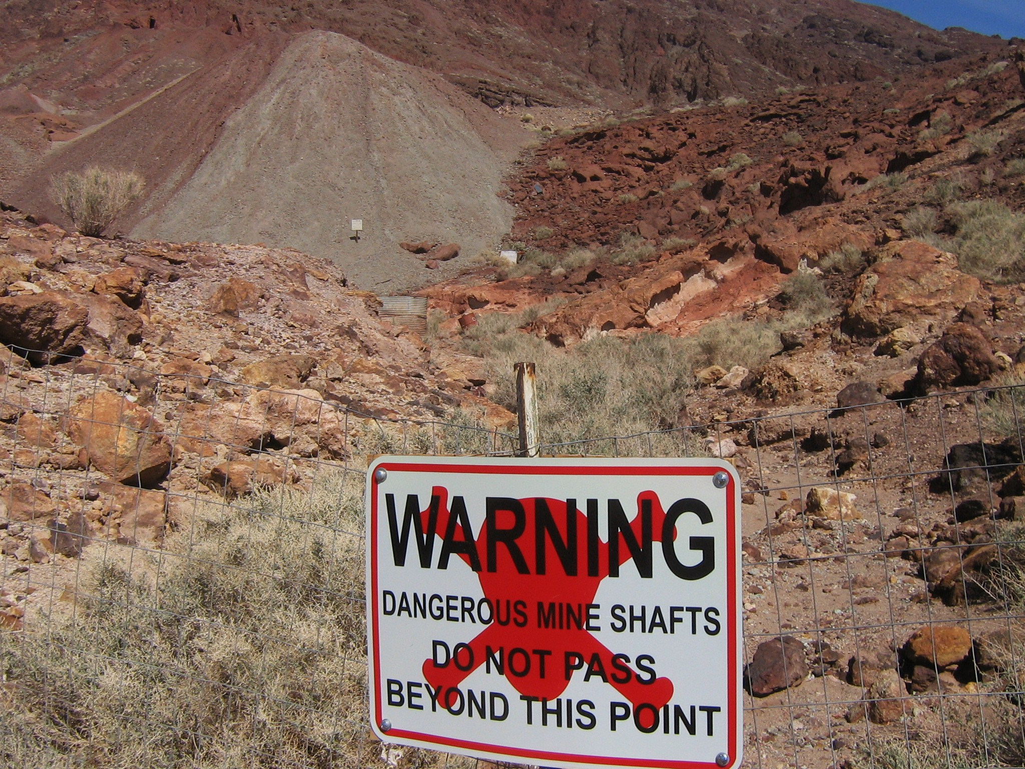 A sign warning people to stay away from a dangerous area of mines and waste-rock piles in Calico Ghost Town, California.